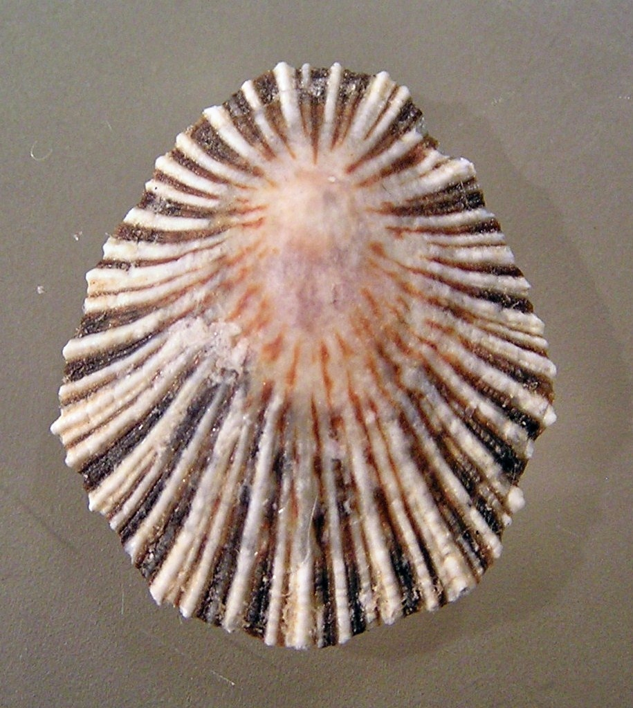 Helcion concolor (Krauss, 1848) (synonym: Patella variabilis polygramma Tomlin, 1931); a limpet from the family Patellidae; South Africa